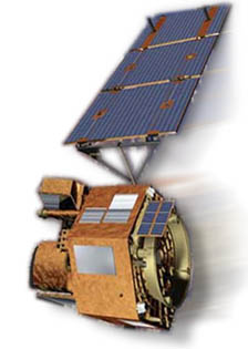 Artist's rendering of the Earth Observing-1 (EO-1) satellite.